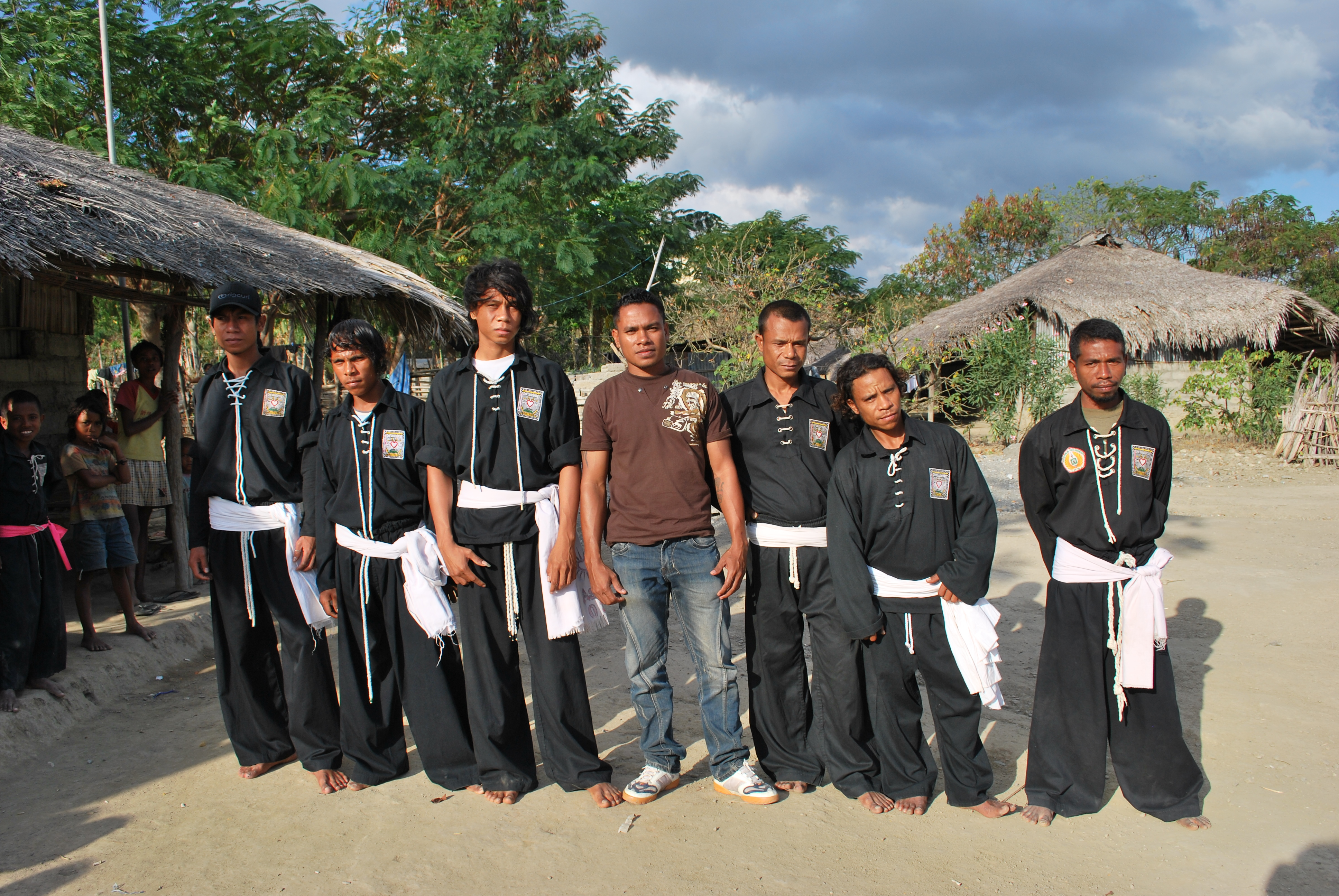 PSHT Martial Art in Laclo, East Timor.